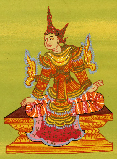 Pareinma Shin Mingaung nat (spirit), th in the official pantheon of Burmese nats